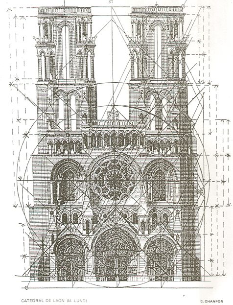 Regulating lines that give the Cathedral of Laon golden section.